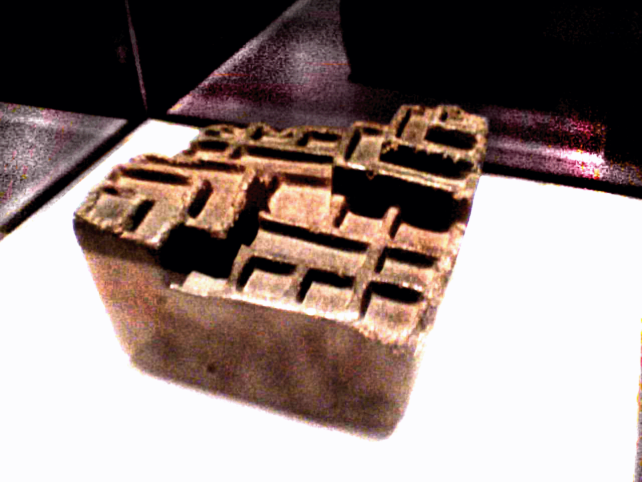 An Incan yupuna, an instrument whose purpose is still unclear, though it may have been used for making arithmetic calculations.